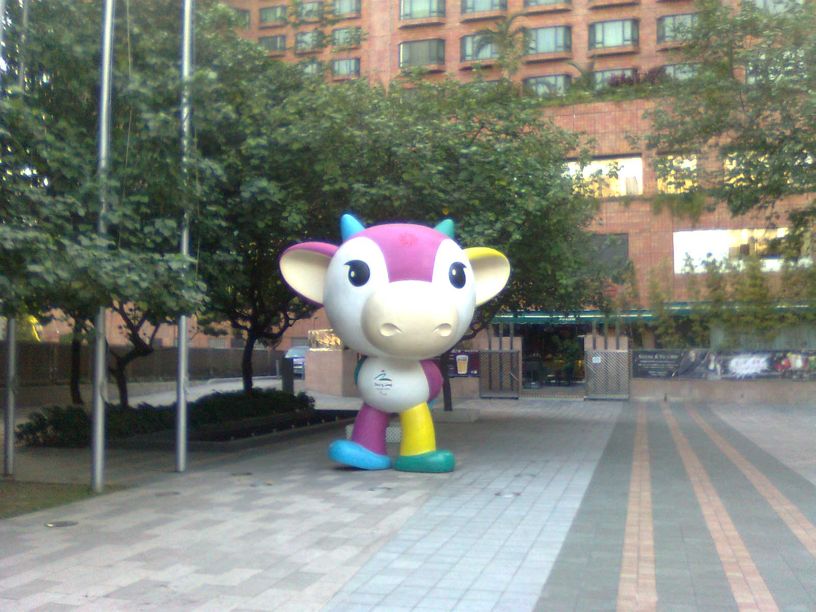 City Art Square, Hong Kong